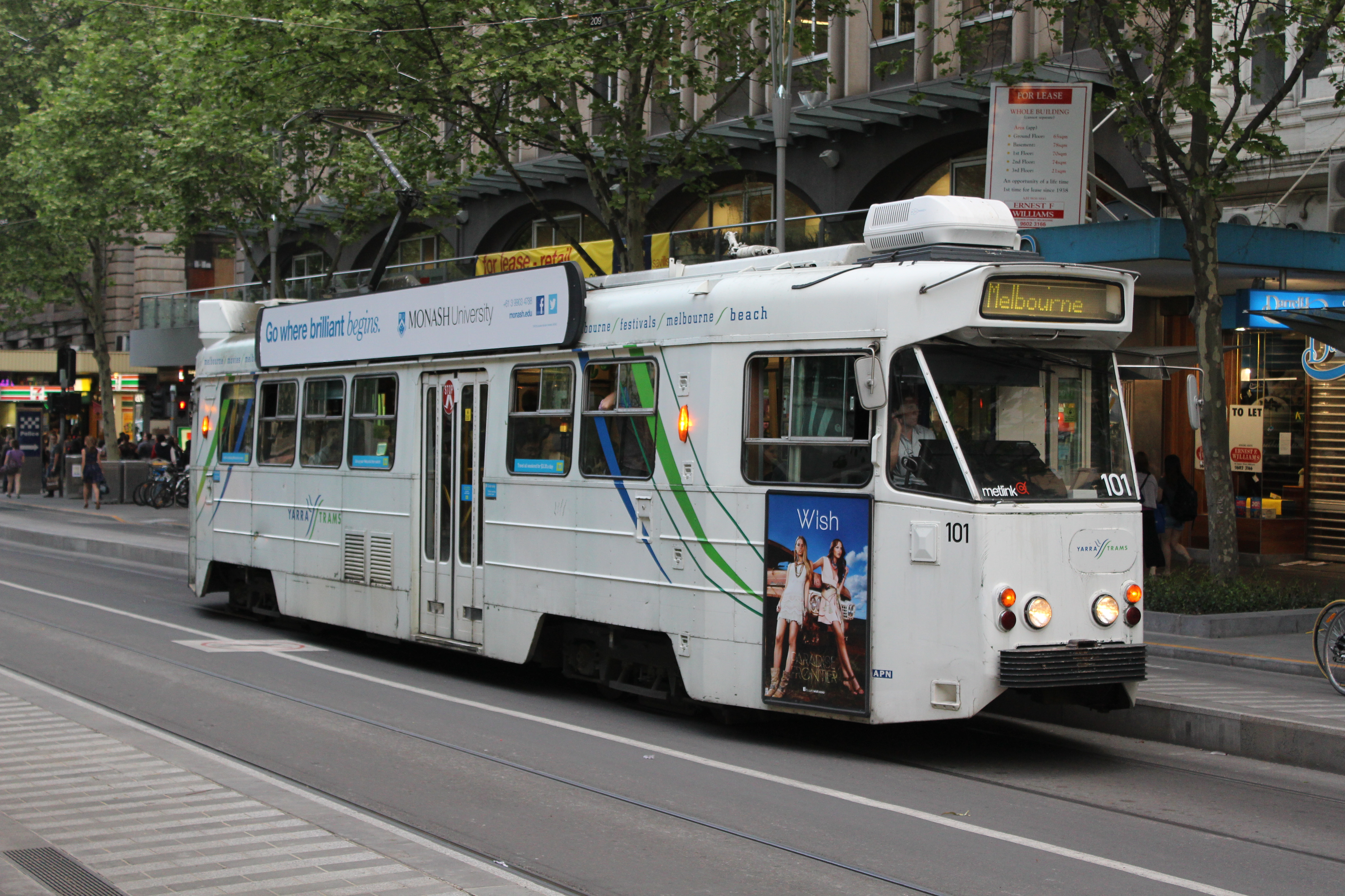 Z2 class tram number 101 in Swanston Street, Melbourne, at the City Square tram stop.